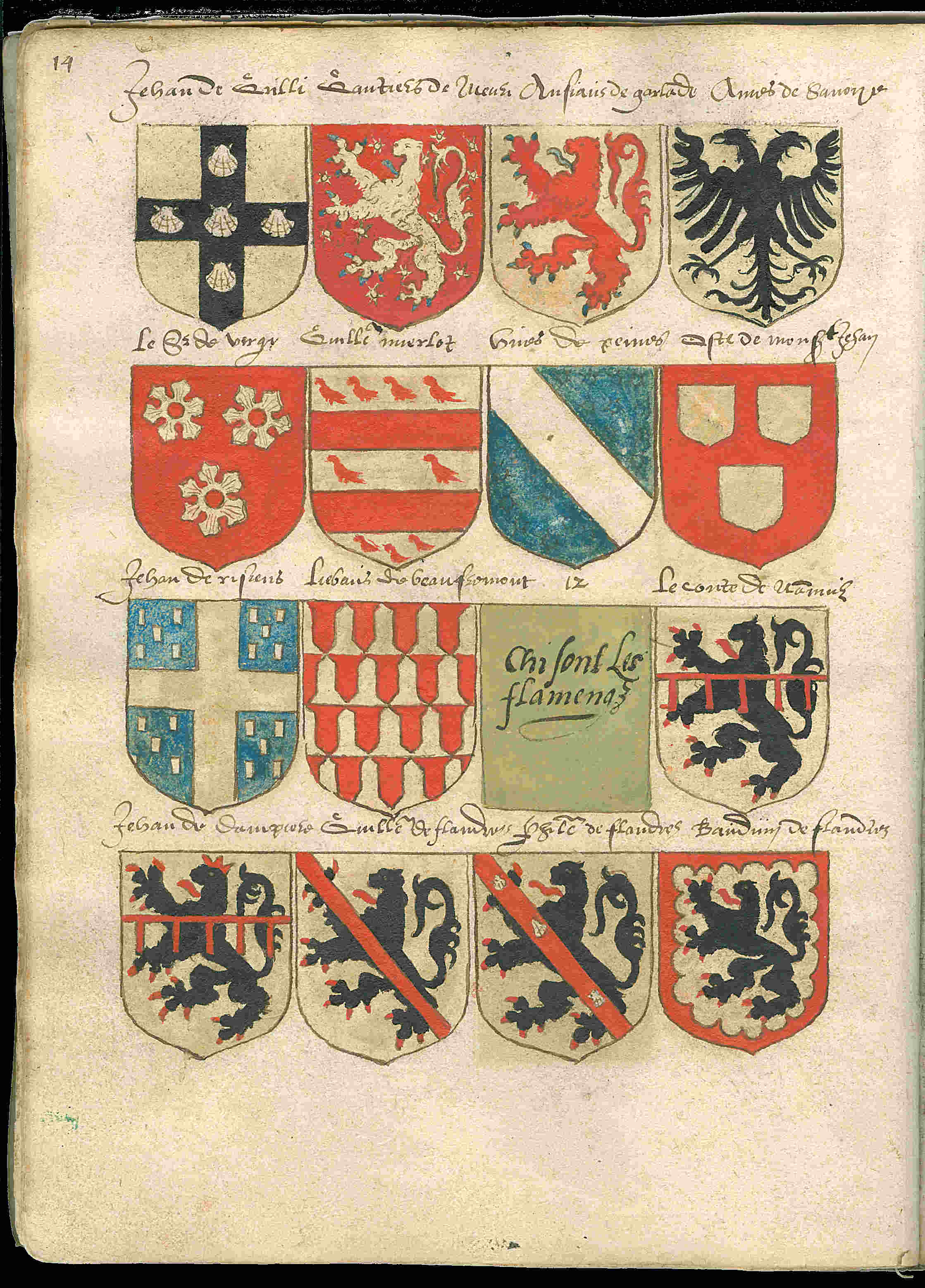 Page 14 from a copy of the Beyeren armorial / Wapenboek Beyeren from ca. 1600. The original Beyeren armorial from 1405 can be viewed at the website of the KB